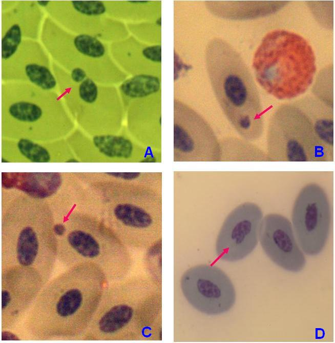 Micronuclei and nuclear abnormalities in peripheral blood erythrocytes of penguins Pygoscelis papua. A – “budding” nucleus with nucleoplasmic bridge; B, C – micronuclei; D – "notched" nucleus. Blood samples were made by Assist. Prof. Dr. Vladimir Bezrukov, Taras Shevchenko National University of Kyiv, in 2003-2004 during VIII Ukrainian Antarctic expedition (Gentoo Penguin Colony, Petermann island, 65°10'S, 64°10'W). Frequency and type of the most frequent nuclear abnormalities are used as markers of cytotoxic and genotoxic damage at the level of organism and population.